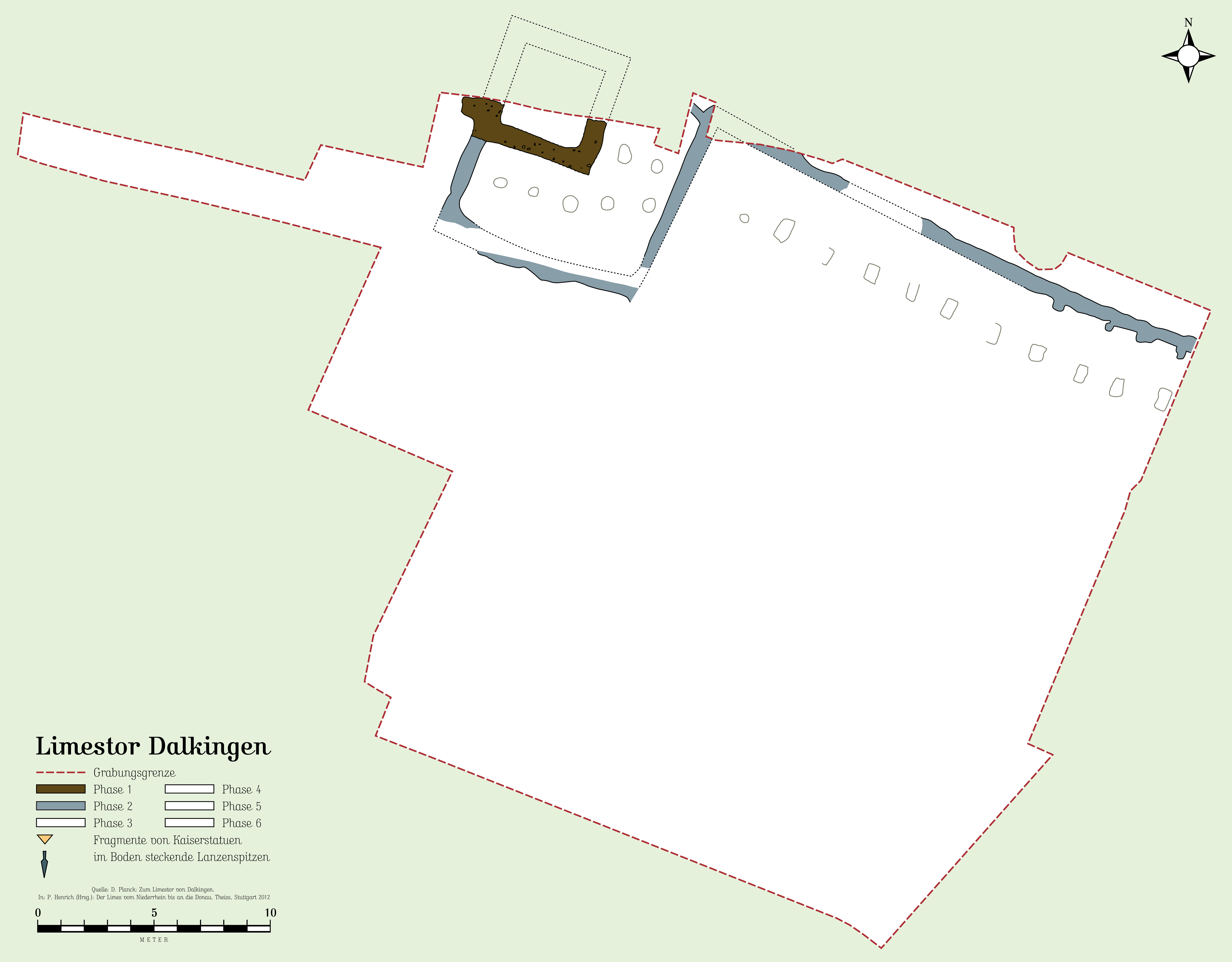 The Roman Limes gate of Dalkingen, Germany; 2nd construction phase (of altogether six) after D. Planck. Created on Macintosh; saved in Wikipedia with Adobe Photoshop CS 3